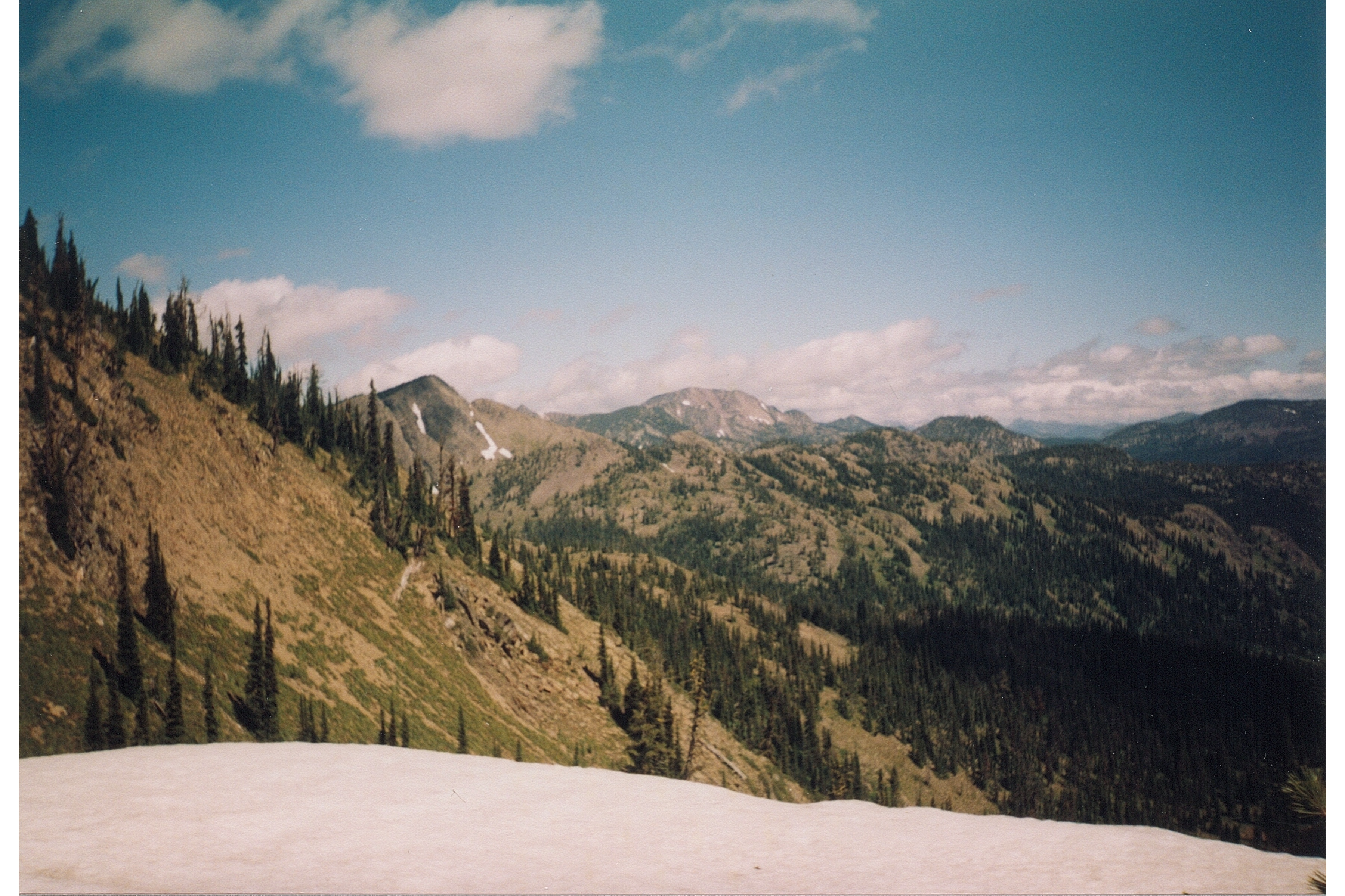 High peaks of the Rattlesnake Mountains, Montana, showing McLeod Peak, el. 8,620', highest in the range, in the center. Photo taken summer 1999 by John David Stutts.